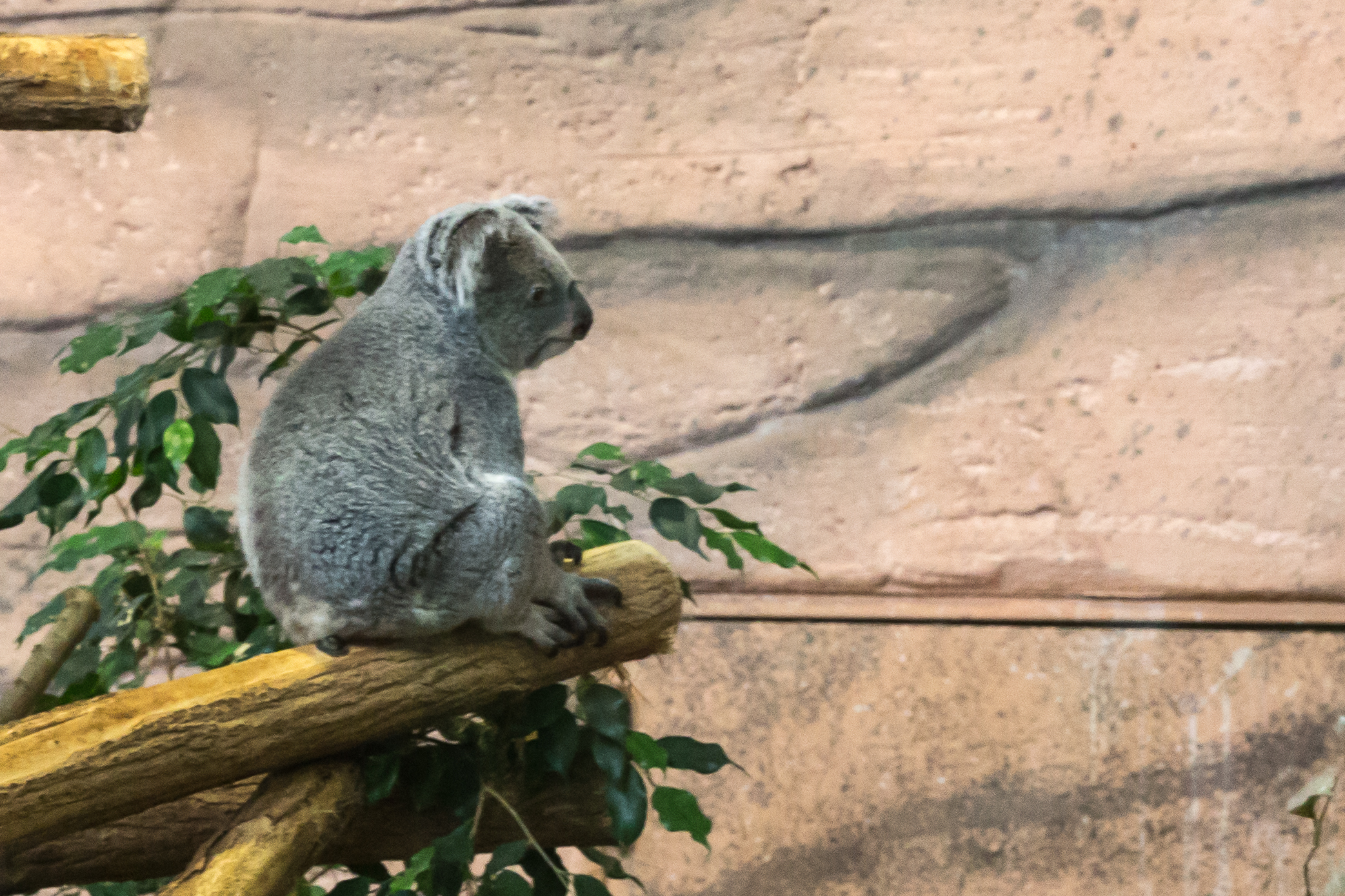 Phascolarctos cinereus (Koala) in the ZooParc de Beauval in Saint-Aignan-sur-Cher, France.